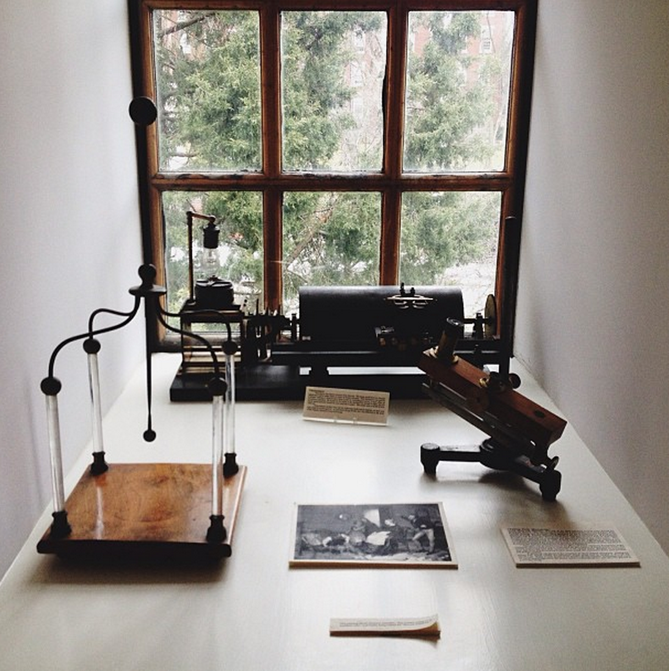 A selection of historical objects displayed in the window of the Special Collections area of the Brown University John Hay Library.